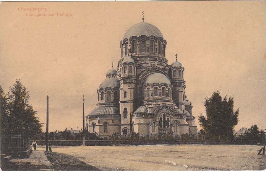 Kazan Cathedral, Orenburg, Russian Empire